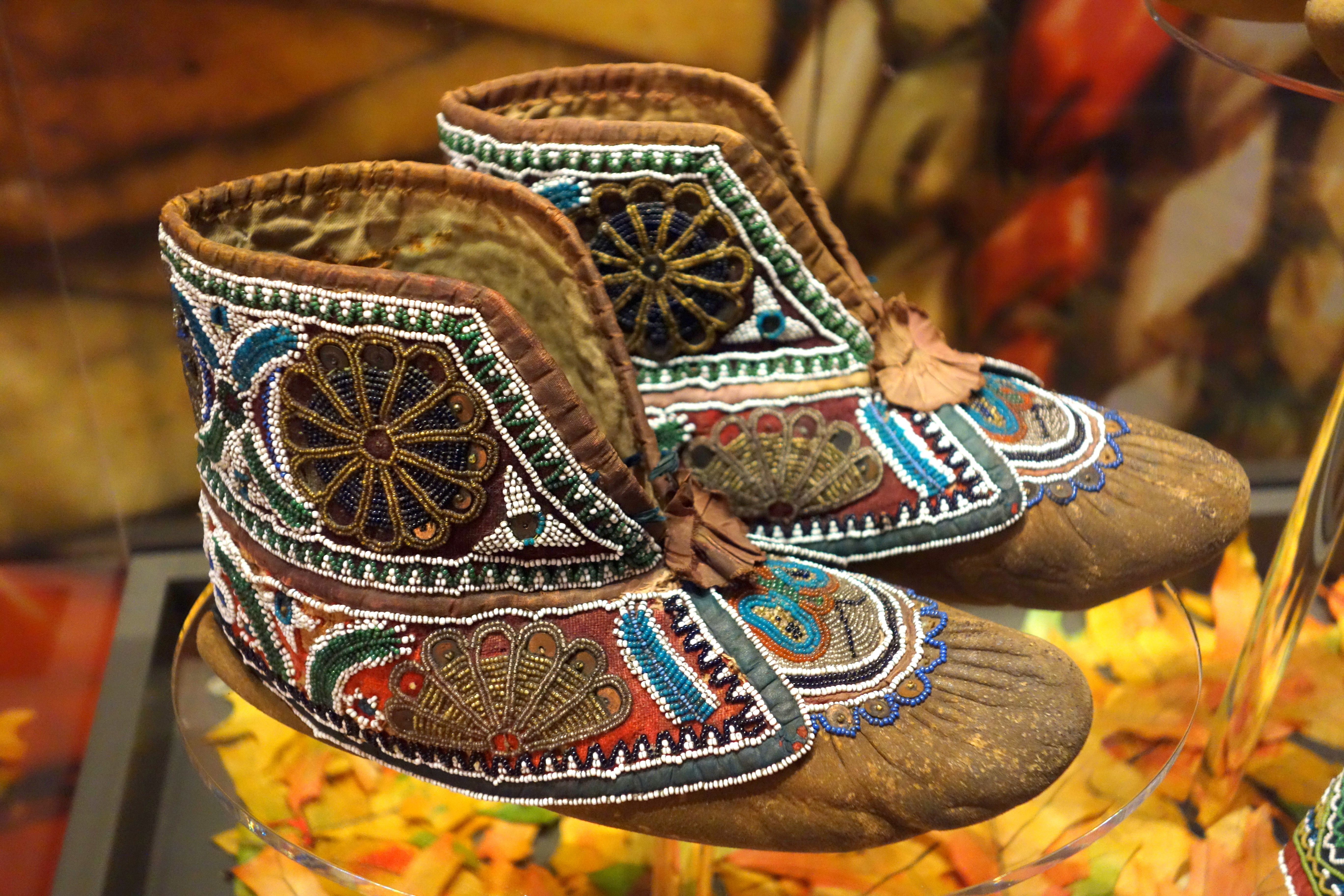 Exhibit in the Bata Shoe Museum, Toronto, Ontario, Canada. This item is old enough so that its design is in the public domain. The museum permitted photography without restriction.